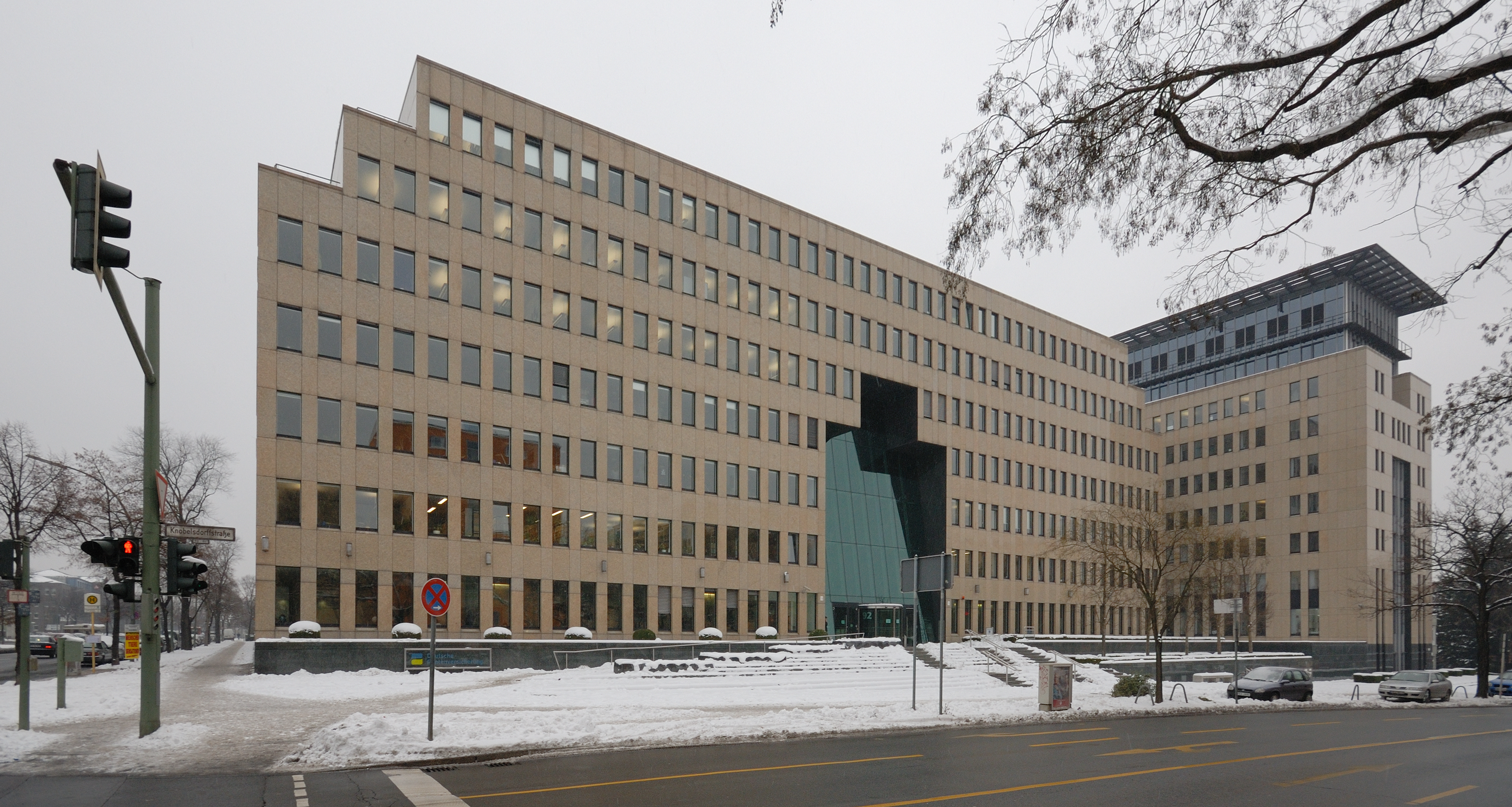 Office of the Deutsche Rentenversicherung Berlin-Brandenburg (German Statutory Pension Insurance Berlin-Brandenburg), Knobelsdorffstr. 92, Berlin.